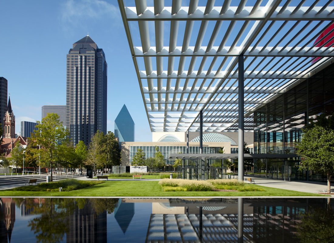 View of the magnificent Downtown Dallas Arts District with the Pritzker Prize winner Norman Foster designed Winspear Opera House in the foreground with its reflecting pool and the I.M. Pei designed Meyerson Symphony Center immediately behind. Trammell Crow Tower, the Cathedral of the Arts District and Fountain Place Tower are prominent in the image along with various other skyscrapers of Downtown Dallas as the backdrop. There are numerous additional arts venues within the Dallas Arts District in addition to these two standout facilities.